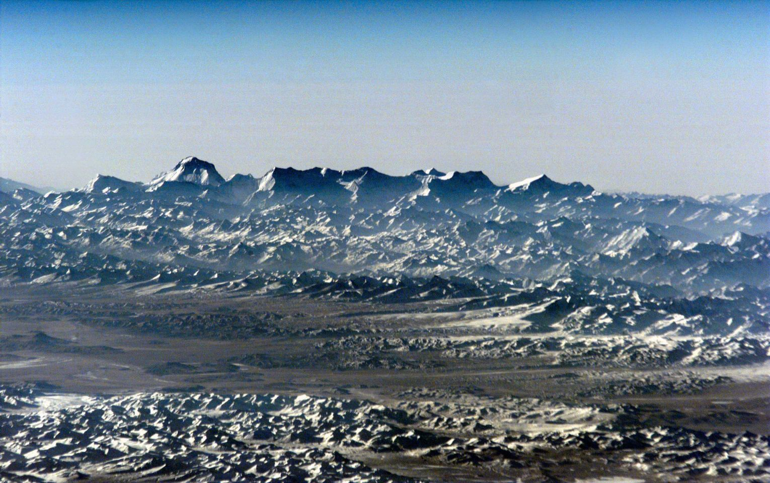 This stunning aerial view shows the rugged snow covered peaks of a Himalayan mountain range in Nepal. The seventh-highest peak on the planet, Dhaulagiri, is the high point on the horizon at the left while in the foreground lies the southern Tibetan Plateau of China. But, contrary to appearances, this picture wasn't taken from an airliner cruising at 30,000 feet. Instead it was taken with a 35mm camera and telephoto lens by the Expedition 1 crew aboard the International Space Station -- orbiting 200 nautical miles above the Earth. The Himalayan mountains were created by crustal plate tectonics on planet Earth some 70 million years ago, as the Indian plate began a collision with the Eurasian plate. Himalayan uplift still continues today at a rate of a few millimeters per year.